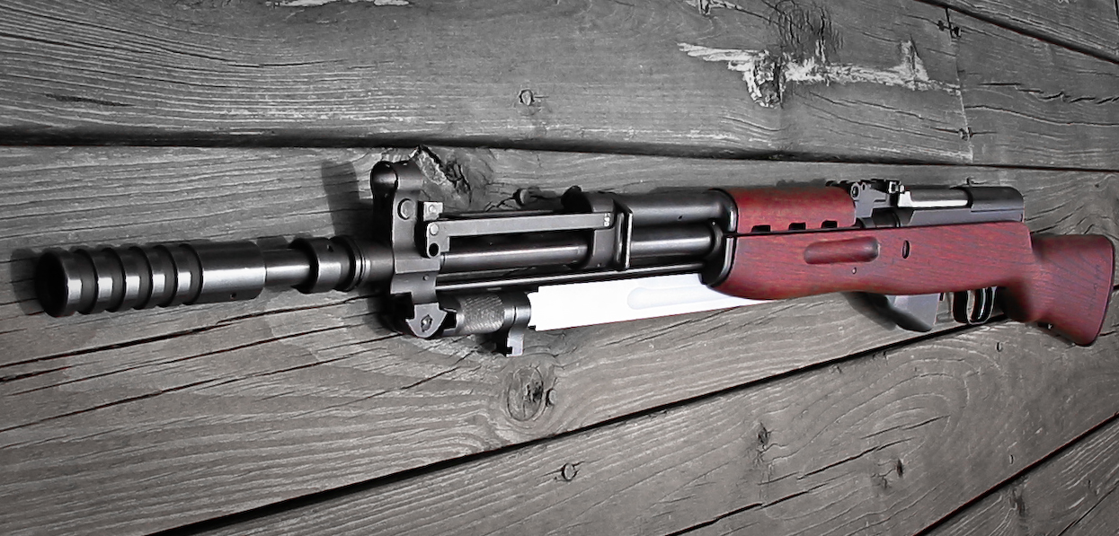 Yugoslavian SKS with all original parts. Stock has been altered from its original orange color.